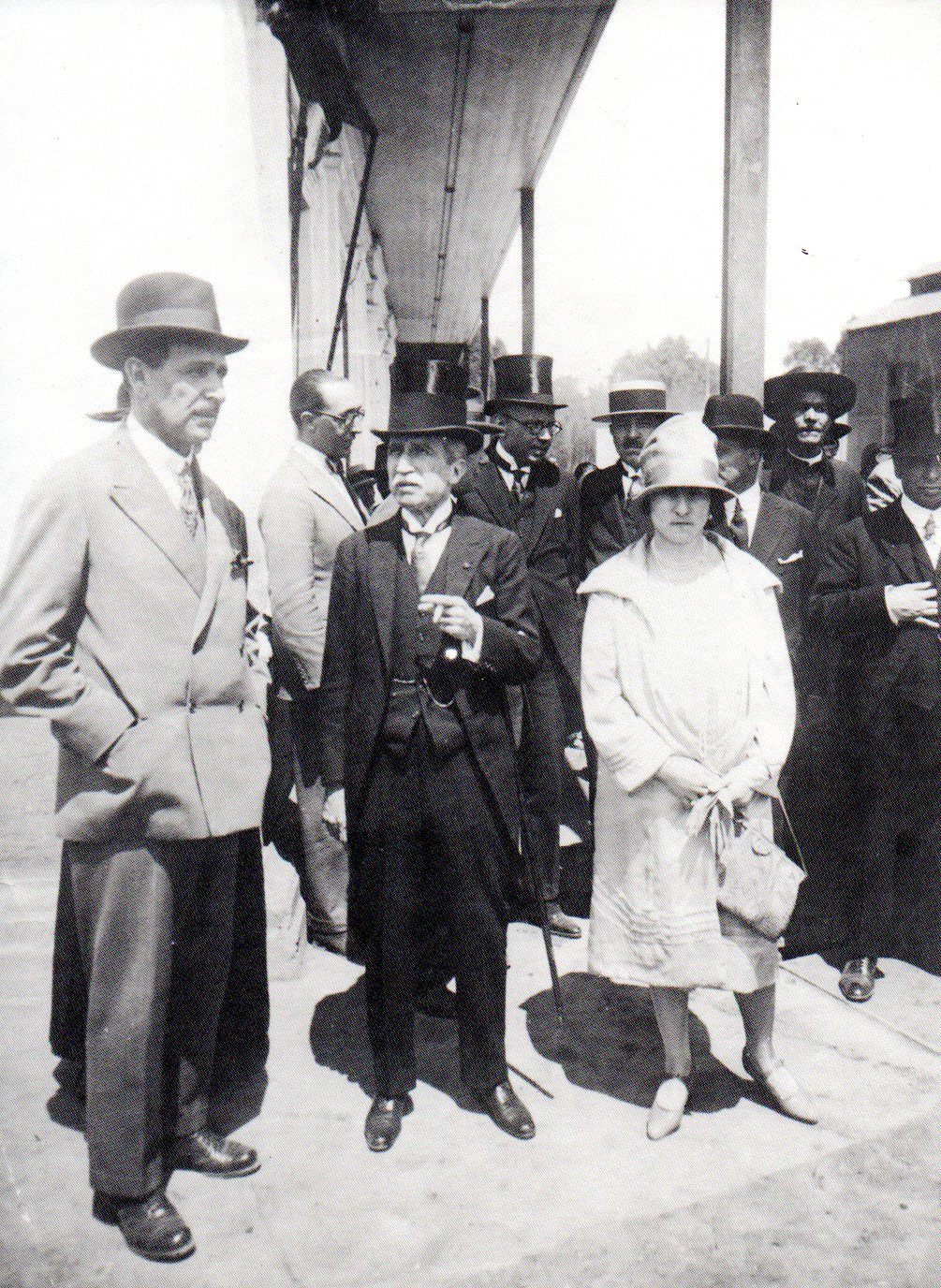 Rollin Thorne Sologuren & Augusto B. Leguía